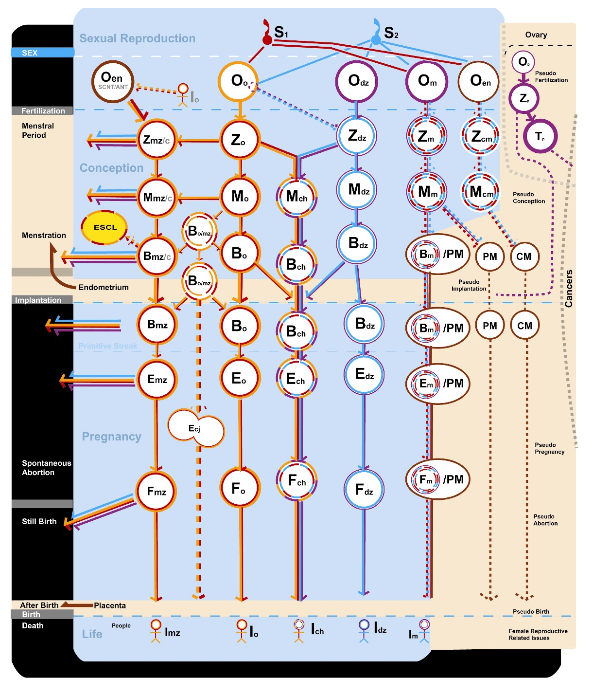 Picture illustrates the ontological status of the preembryo, embryo, and fetus. Dr. Ford (1988) has suggested the term proembryo for this stage of development. It is the preimplantation, post fertilization stage in the human life cycle, where we have at least one new human being, but not yet an individual human being and thus not yet a person. From the formation of the primitive streak (shortly following the completion of implantation), individuality has been determined, however there is debate as to whether this individual human being is, or should be considered, a person.